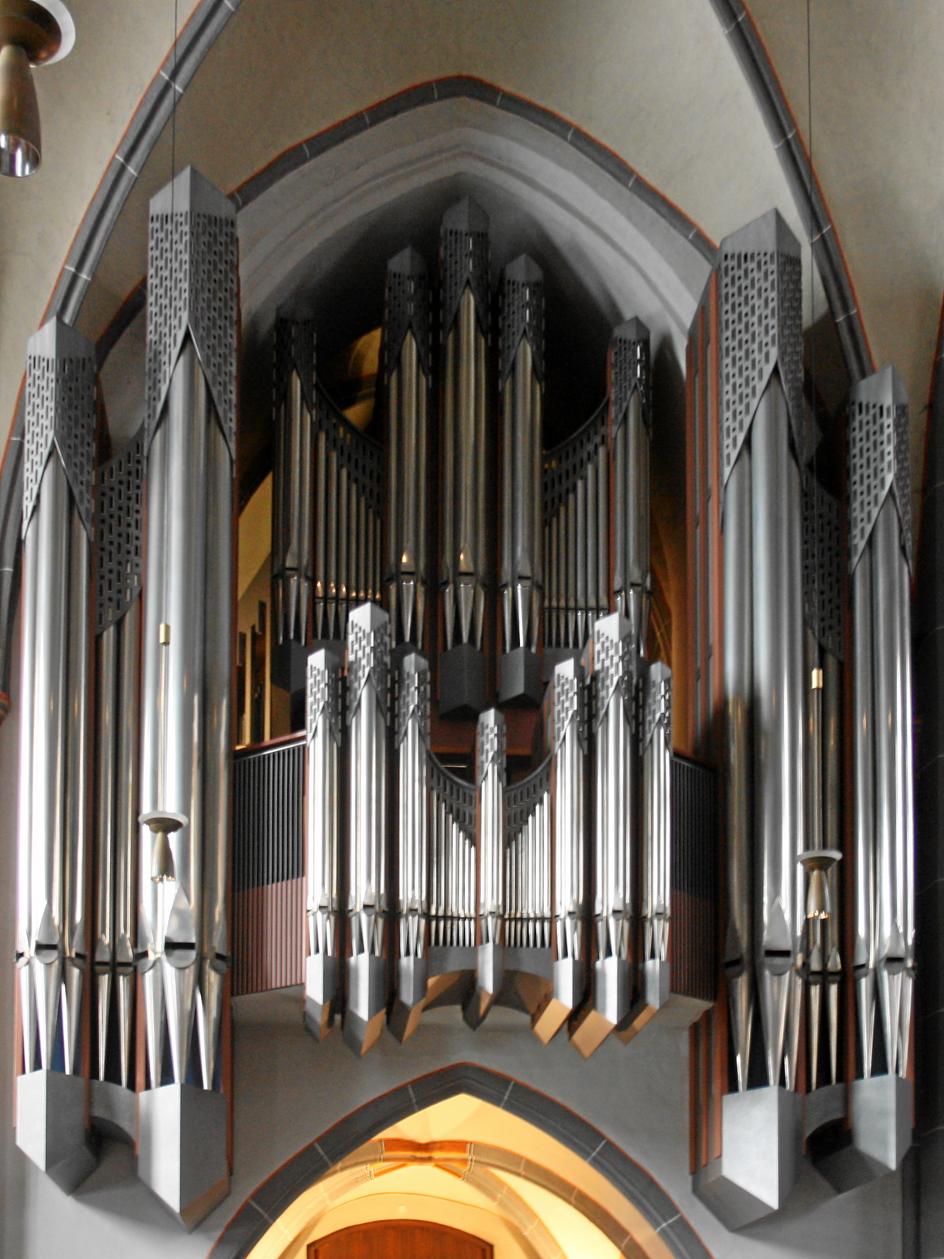 Düsseldorf, Germany. Catholic church St. Lambertus, main pipe organ in the church tower.